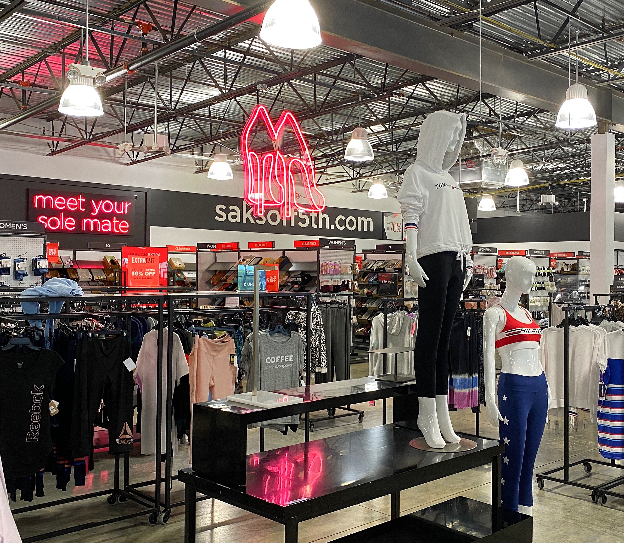 Saks Off 5th, Clarksburg, Maryland, August 2020